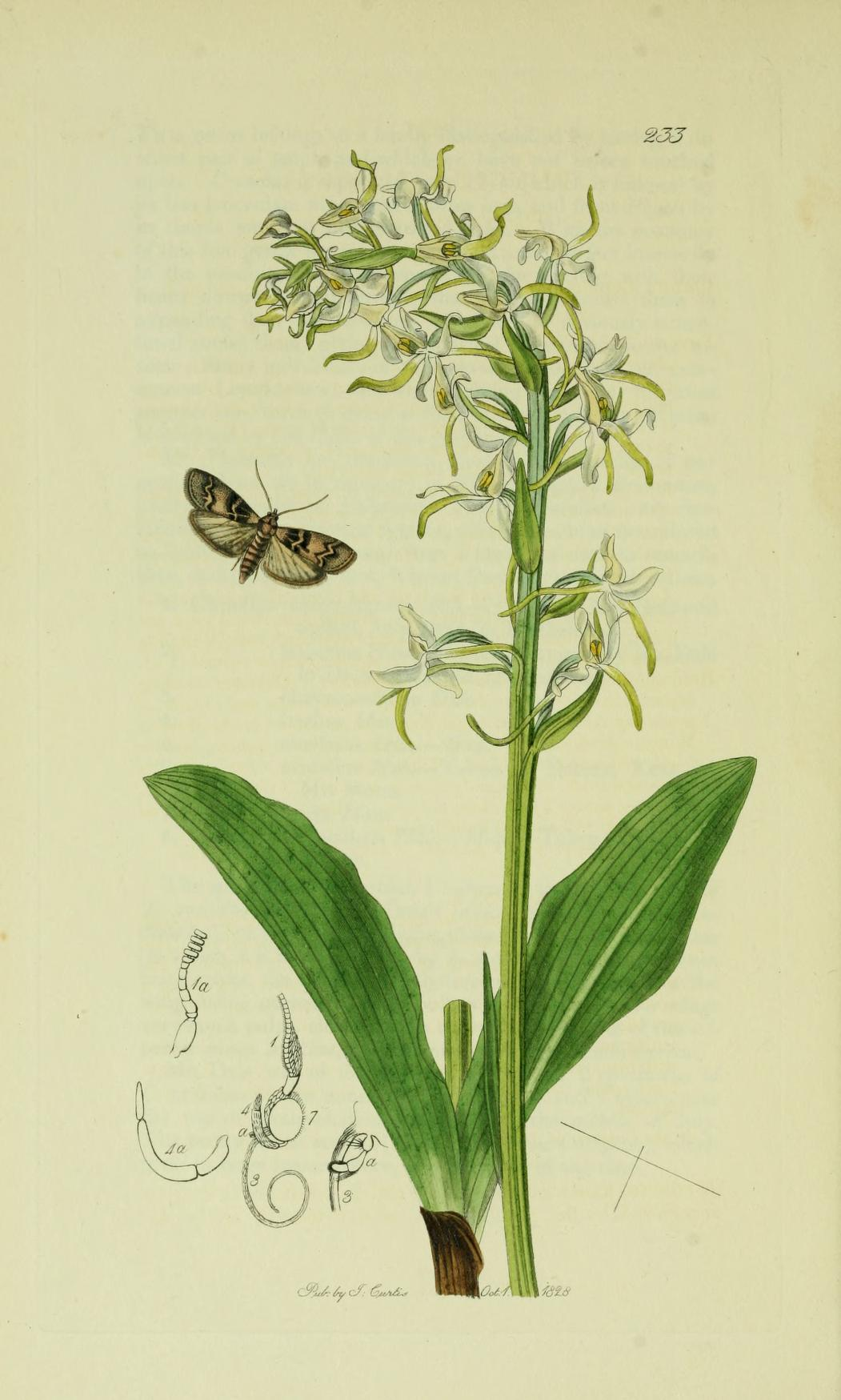 An illustration from British Entomology by John Curtis. Lepidoptera: Phycita pinguis or Euzophera pinguis (Tabby Knot-horn).